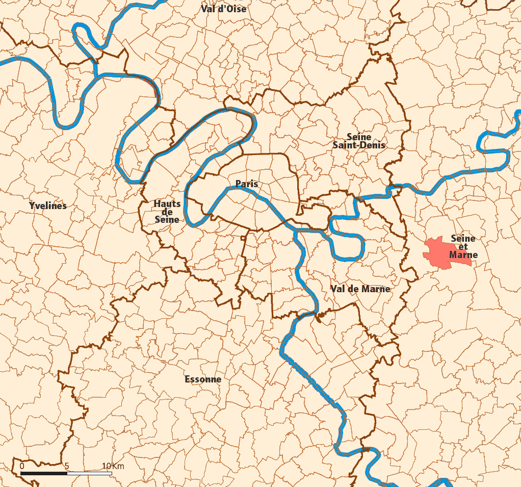 Created page myself.